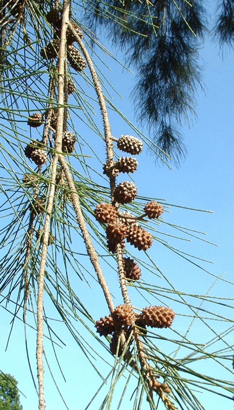 Fruit of Casuarina cunninghamiana. Photographed in Karkur, Israel, by me, Dec. 30, 2005. Fuji FinePix 2650 camera.